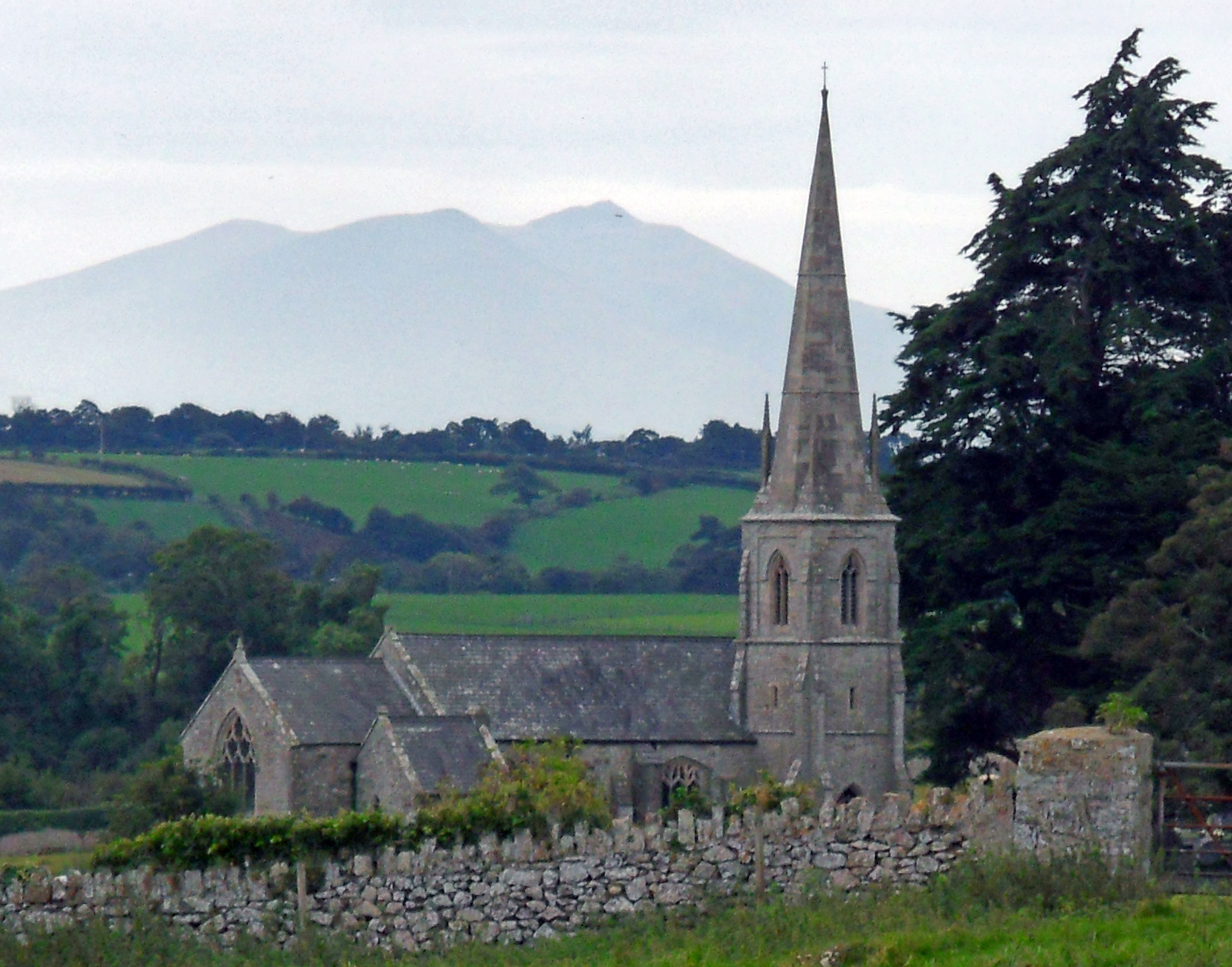 In Spired